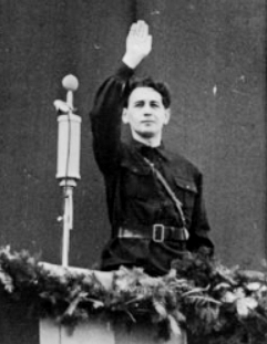 cut and modified after photograph of Horia Sima and marshal Ion Antonescu at a public ceremony in october 1940